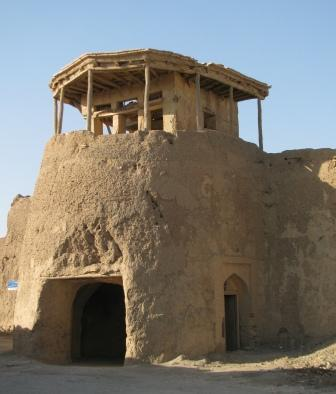 Historical gate of castle, Hasan Abad Abrizeh, Isfahan